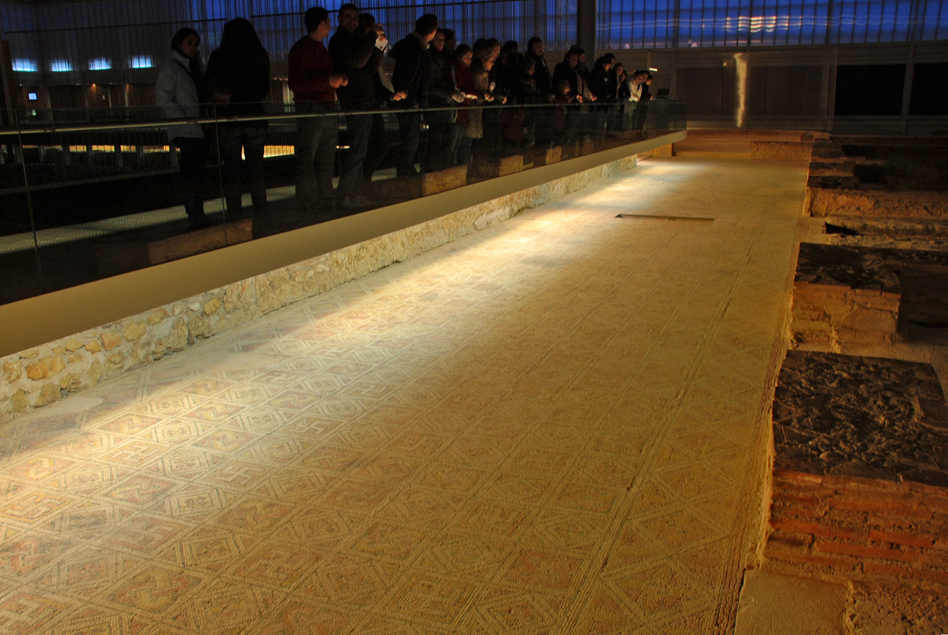 Roman Villae of La Olmeda. North Gallery. Pedrosa de la Vega (Palencia, Castile and León).